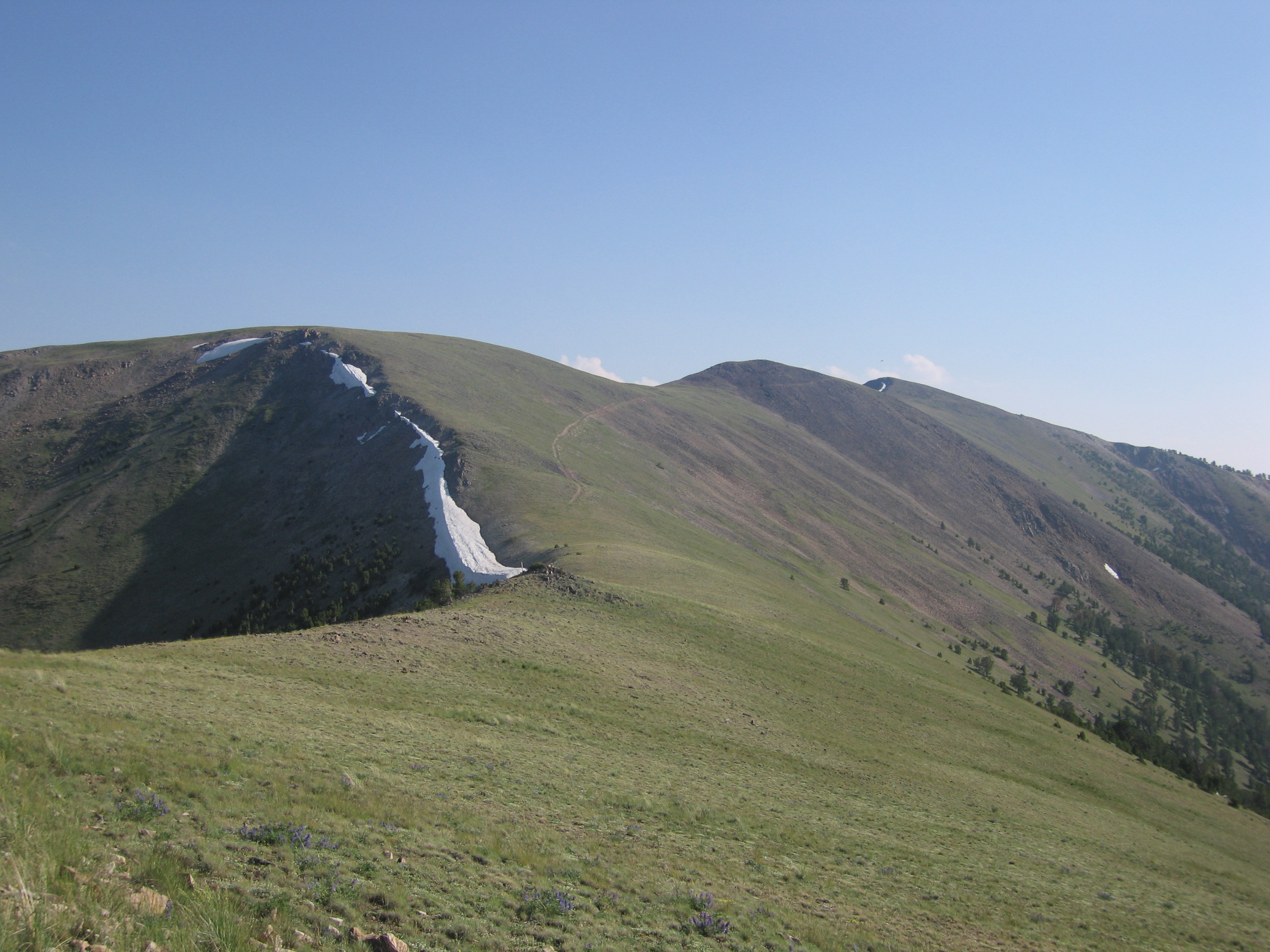 MT/ID border